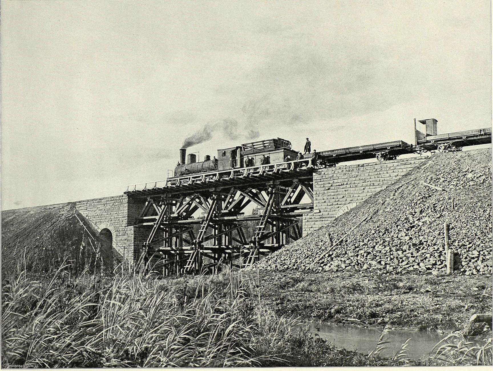 «Great Path - Views of Siberia and Great Siberian Railway» book, 1899